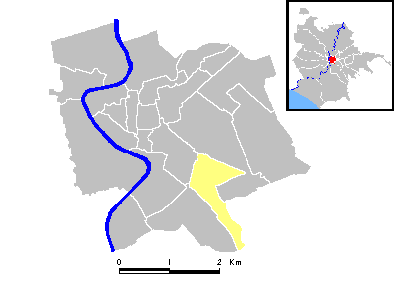 Locator maps of Rome (rioni)